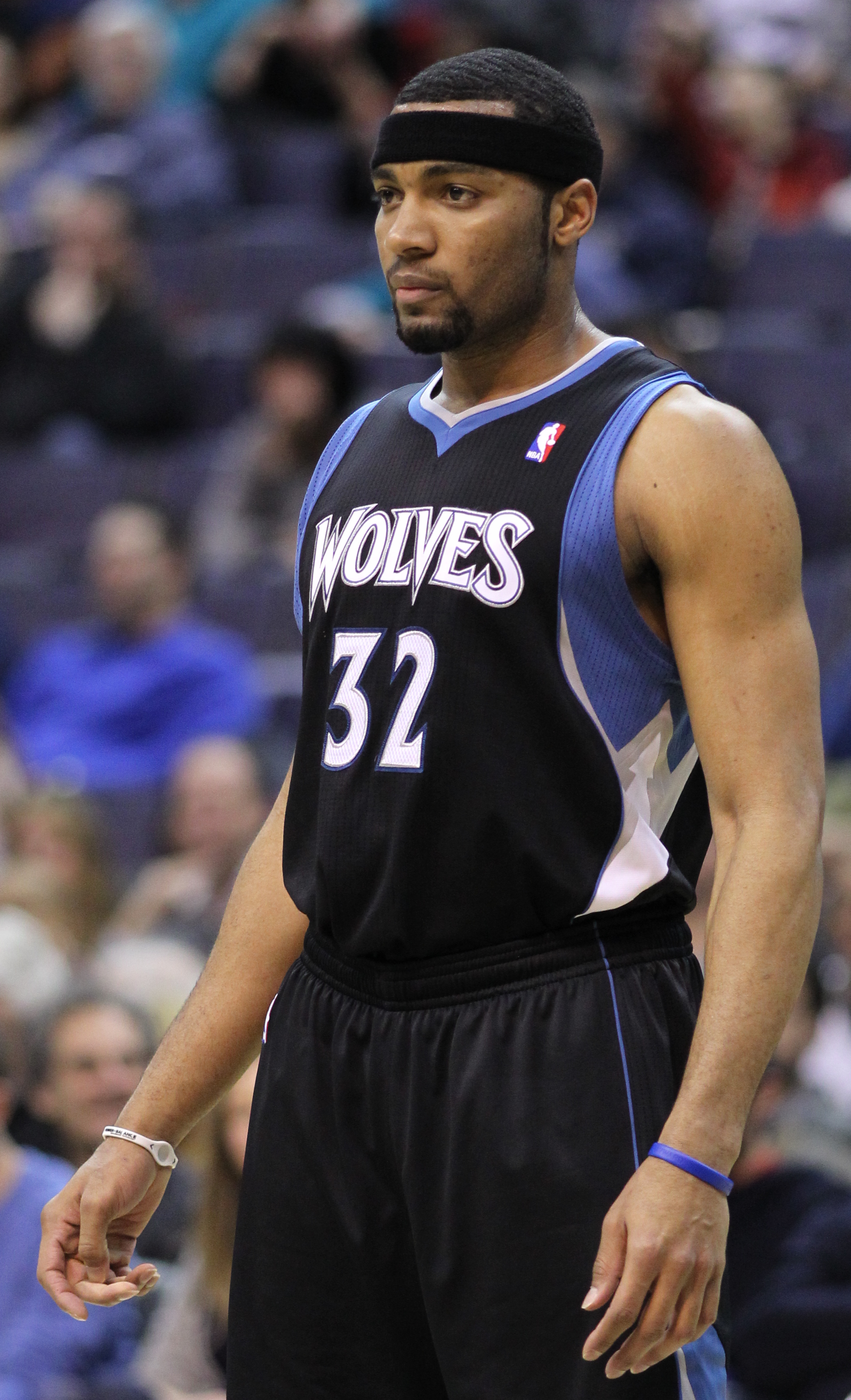 Lazar Haywood in a Washington Wizards vs. Minnesota Timberwolves 03/05/11